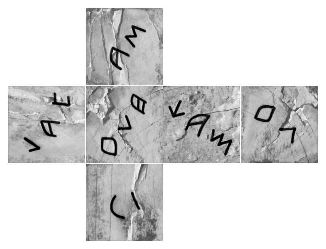 Etruscan dice from TuscaniaConserved at the Bibliothèque Nationale de France, Paris (inventory number Luynes 816)